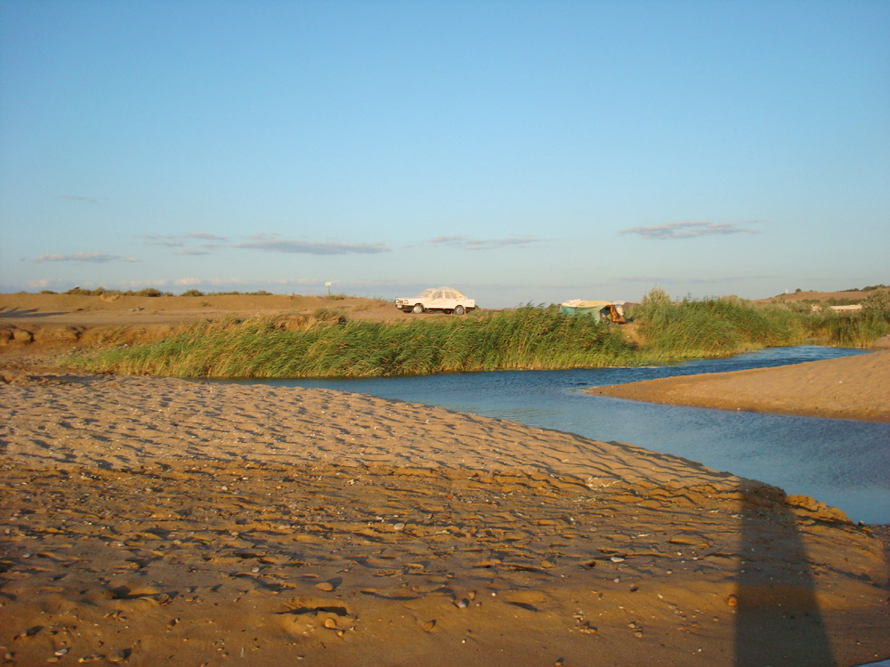 Mouth of the river Kacha